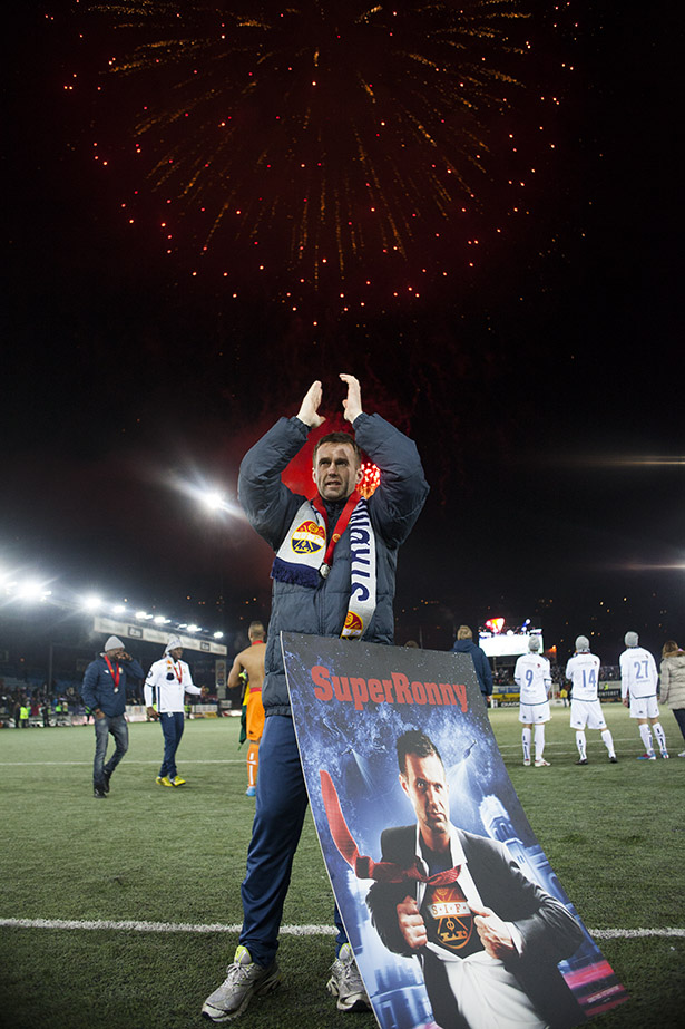 Strømsgodset manager Ronny Deila at the final match of the 2012 season